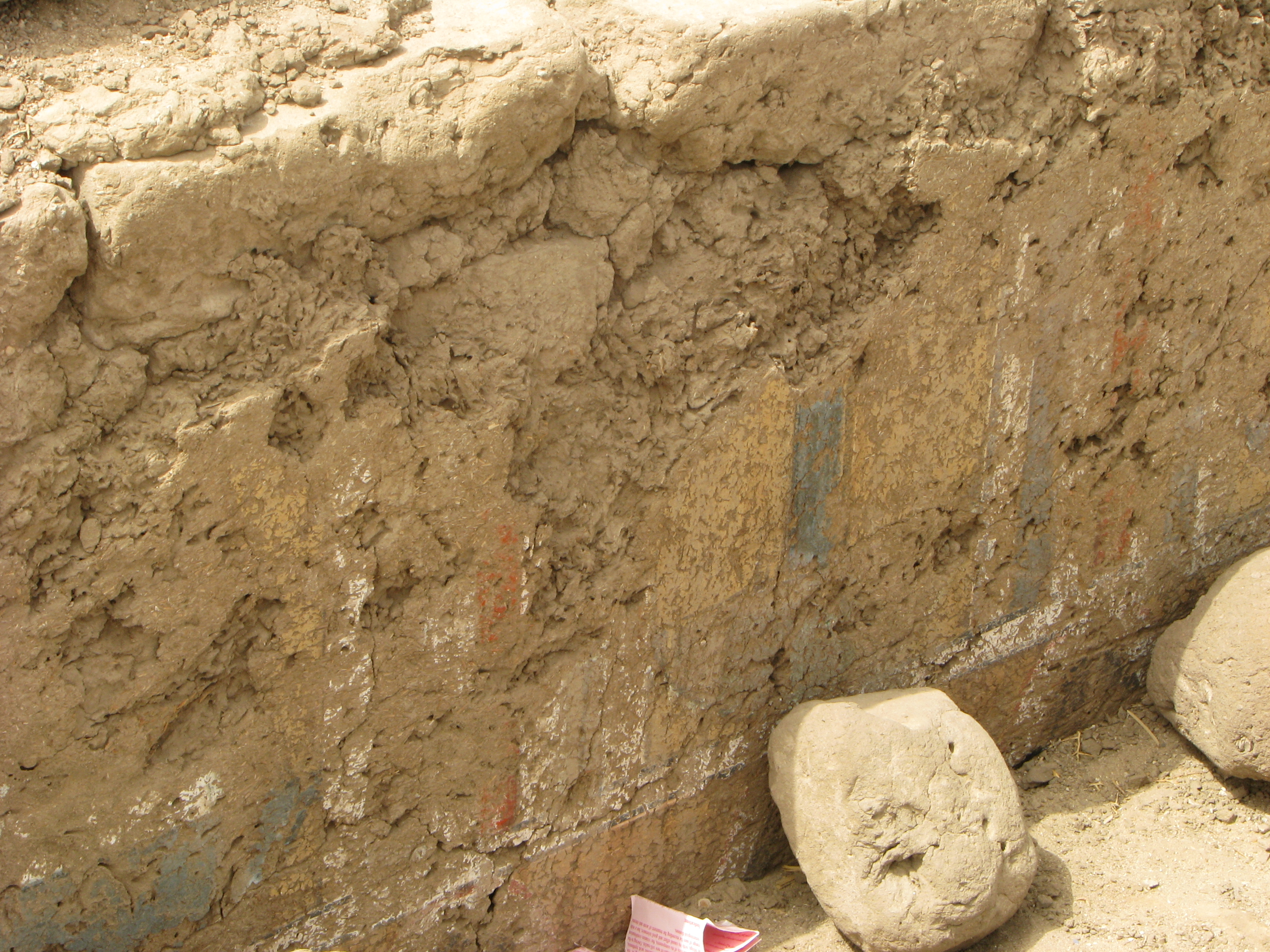 Wall painting remains at ruins of Malkata, by Theban Necropolis, Luxor West Bank, Egypt - Remnants of Amenophis III's palace complex